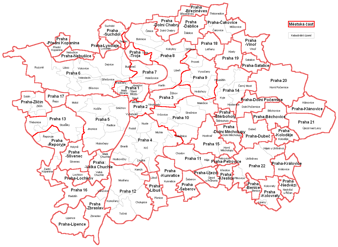 Map of municipal districts and cadastral areas of Prague